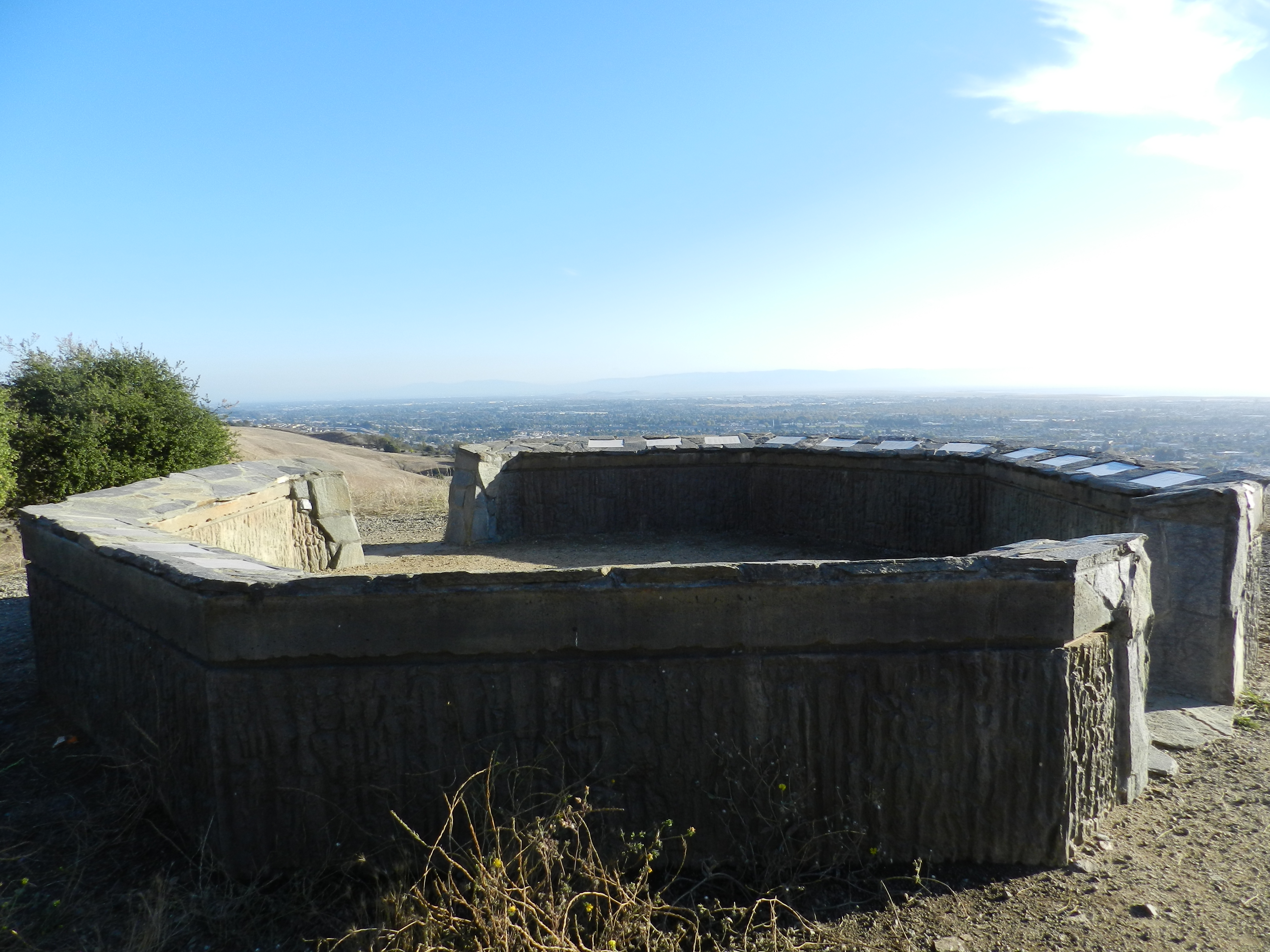 Children's Memorial Grove, stone memorial w/annual plaques, Fairmont Ridge Staging Area, Chabot Regional Park, San Leandro, California